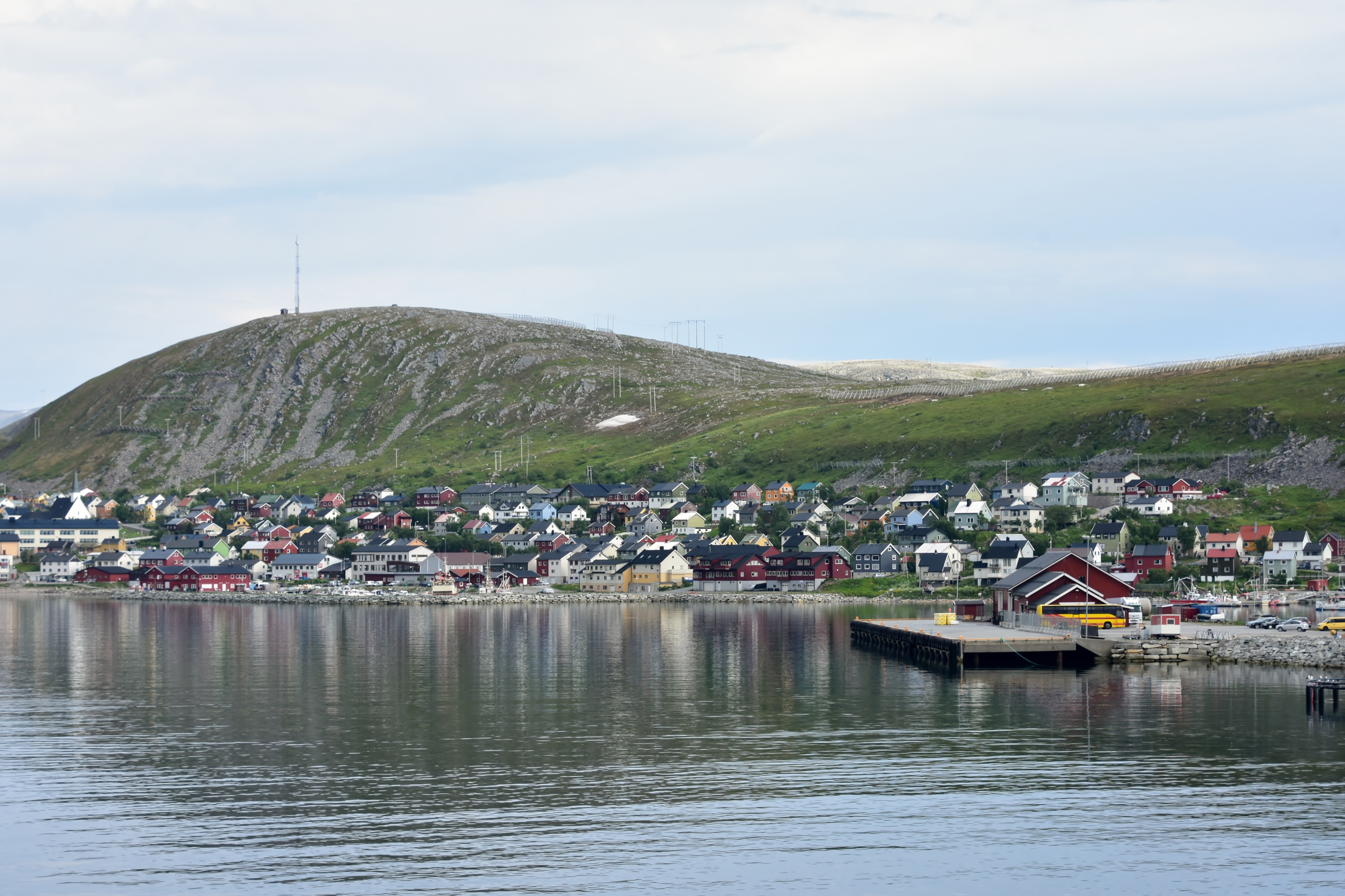 Kjollefjord, far northern Norway (2)